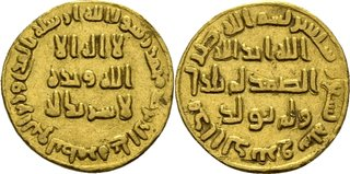 Gold Dinar of Umayyad Caliph Abd al-Malik ibn Marwan minted at Damascus, Syria in AH 75 (= 697/98 CE) having weight of almost 4.25 grams.Português do Brasil : Dinar de ouro do califa omíada Abd al-Malik